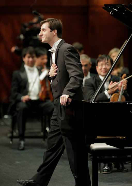 Kenny Broberg performs in the Semifinal round at the Van Cliburn International Piano Competition. Photo by Carolyn Cruz.